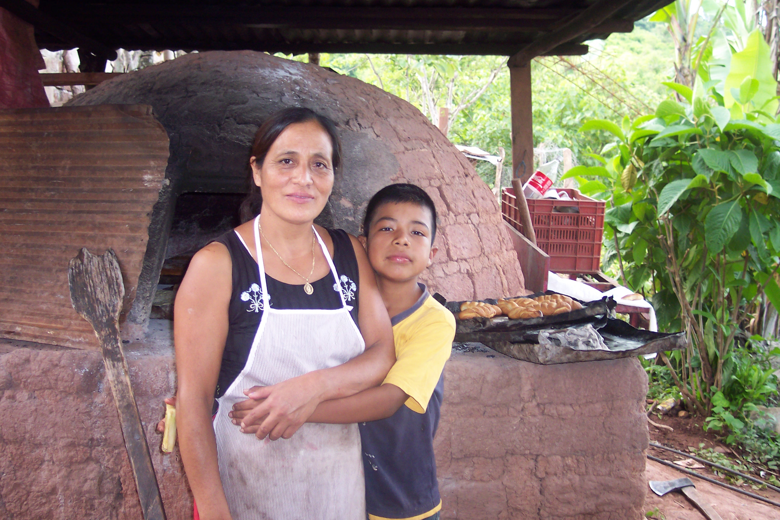 PIH's project in Mexico gave illiterate women cameras, allowing them to document their lives.